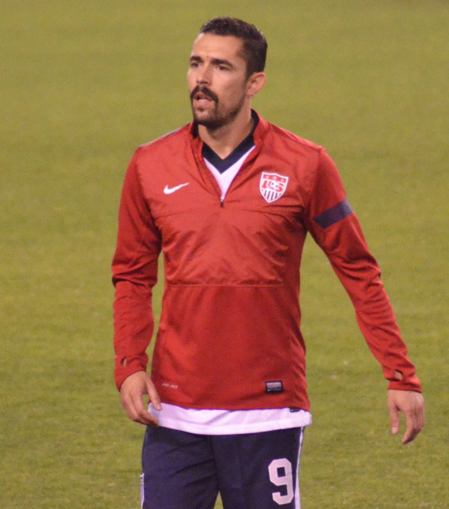 FirstEnergy Stadium Home of the Cleveland Browns